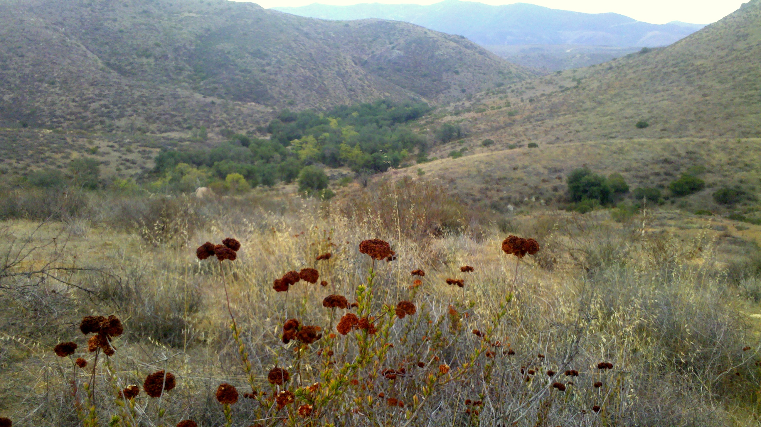 View to Hollenbeck Canyon direction Jamul Mountains